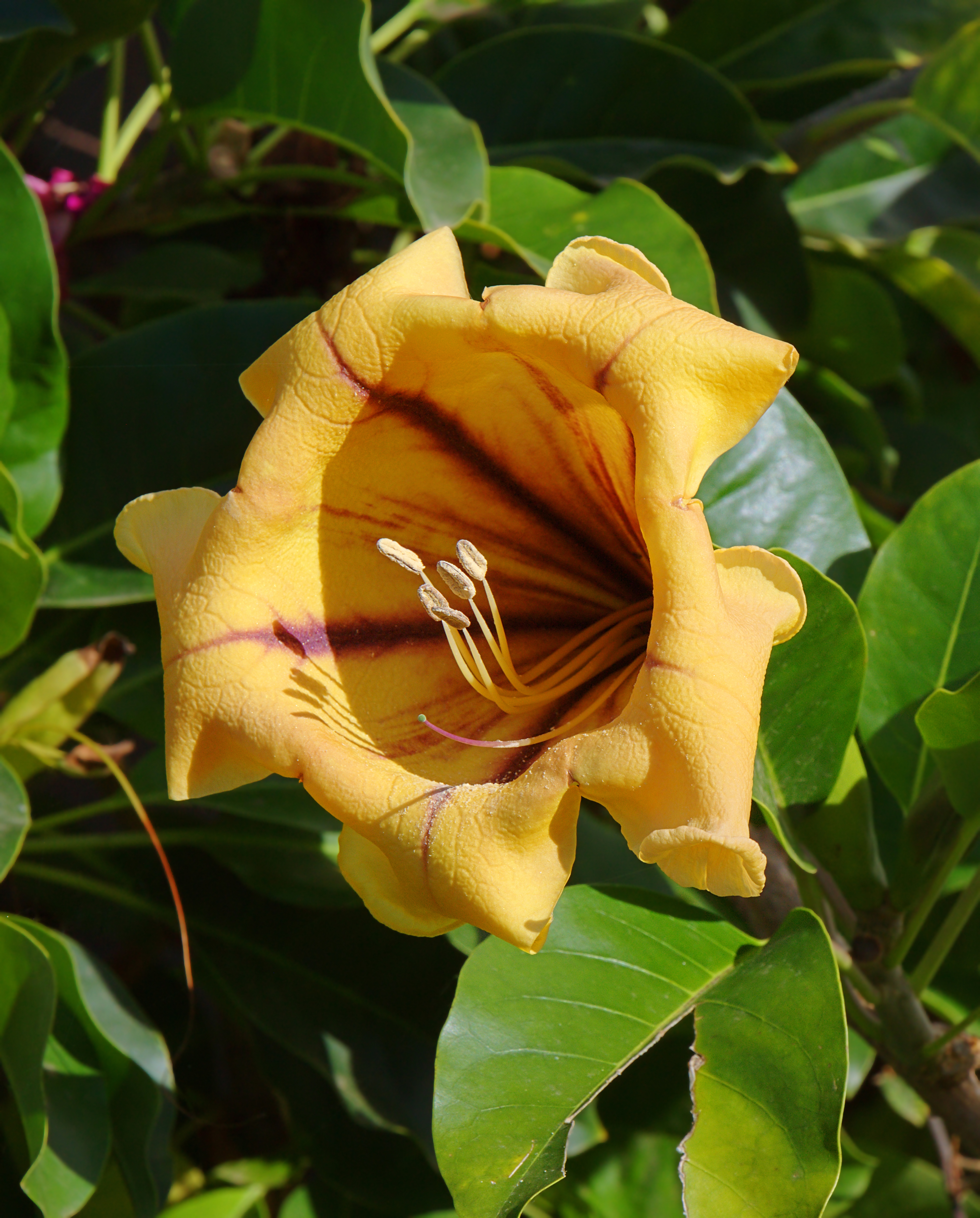 Cup of Gold Vine; Museo Agrícola el Patio, Tiagua, Municipio de Teguise, Lanzarote, Canary Islands, Spain